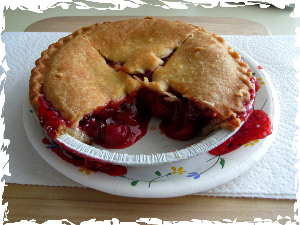 Drool, Everyone ;-) And no I didn't cook it, I can't boil water without the pan going dry LOL!!!